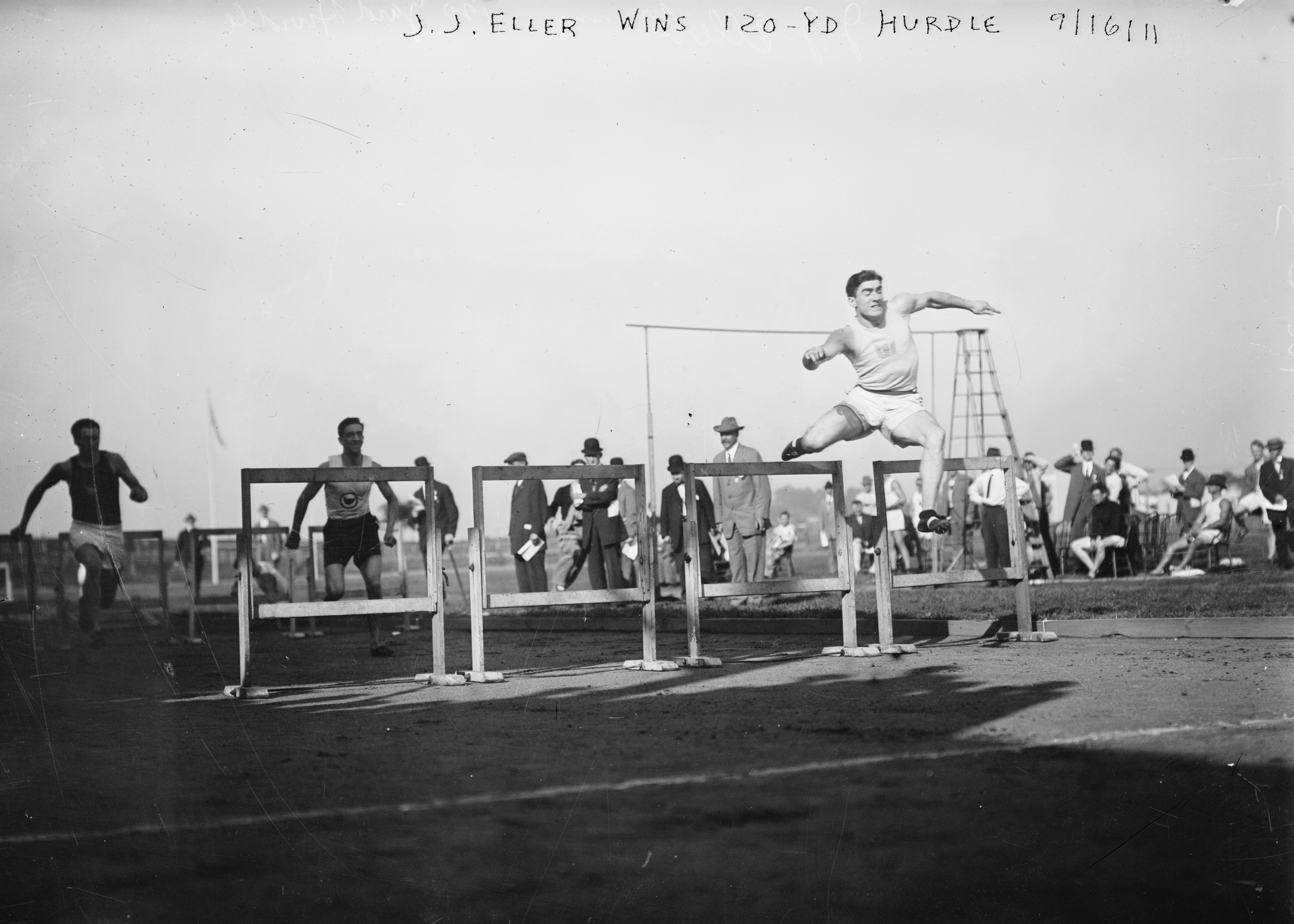 J.J. Eller of the I.A.A.C. defeats I.K Lovell of the I.A.A.C. in 120 yd. hurdle race held at Celtic Park, Queens, NY.